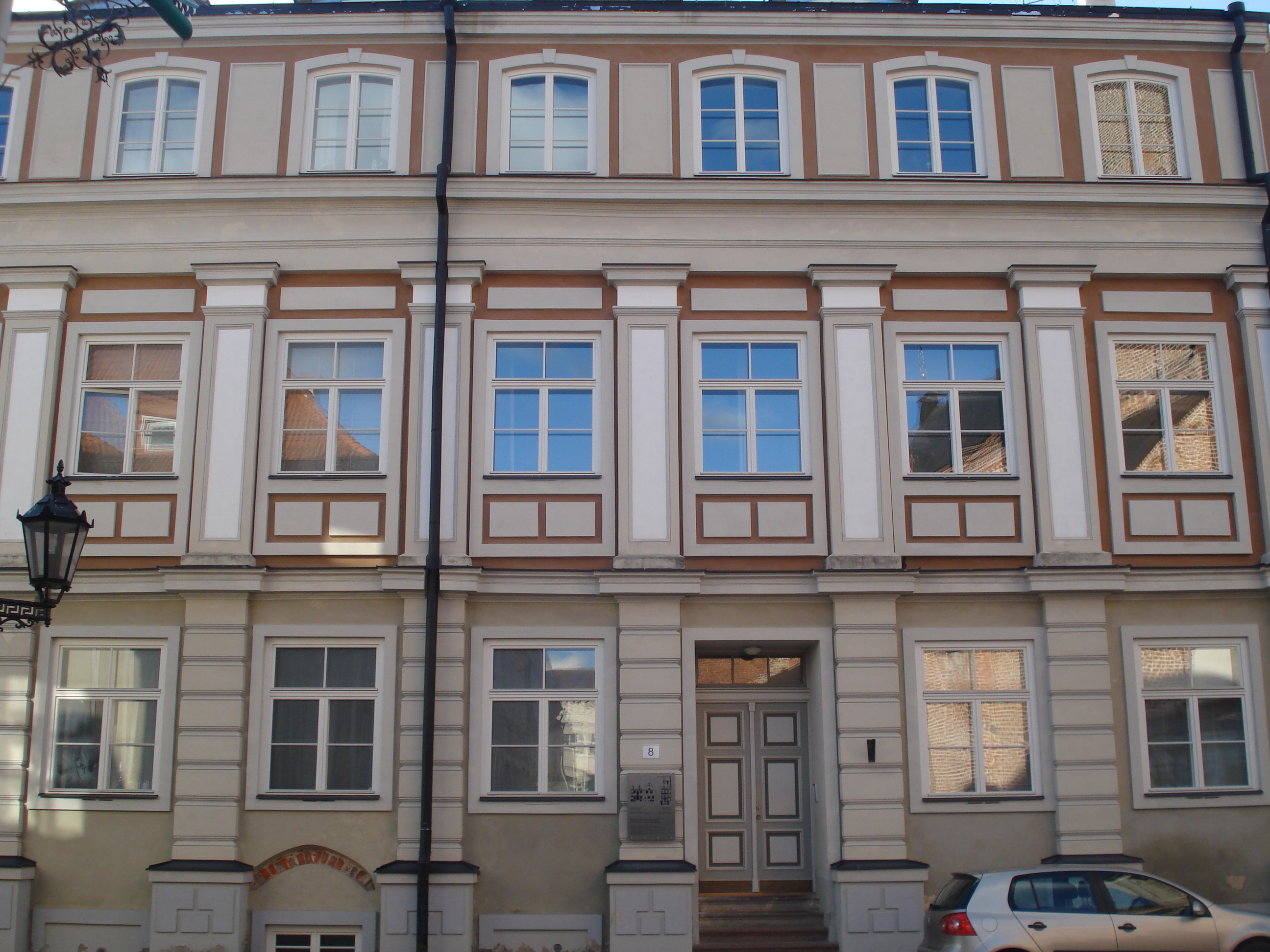 The building of former Academia Gustaviana in Tartu, Estonia (Jaani street 8